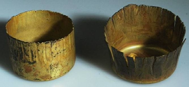 own pic taken 1999